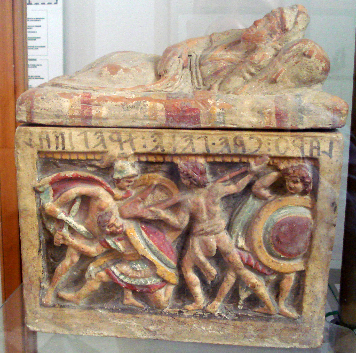 Terracotta Etruscan cinerary urn, displaying a scene of "fight around the ara", whose polychromy is wonderfully preserved. National archeological museum in Palermo, Italy. Picture by Giovanni Dall'Orto, September 28 2006.